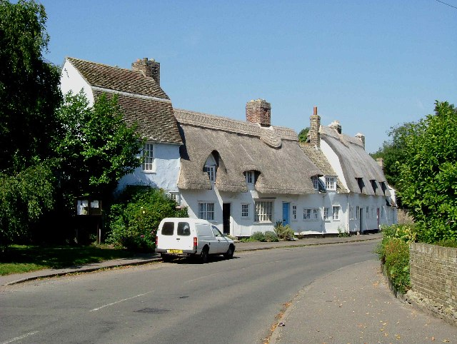 The Lovely Hamlet Grantchester